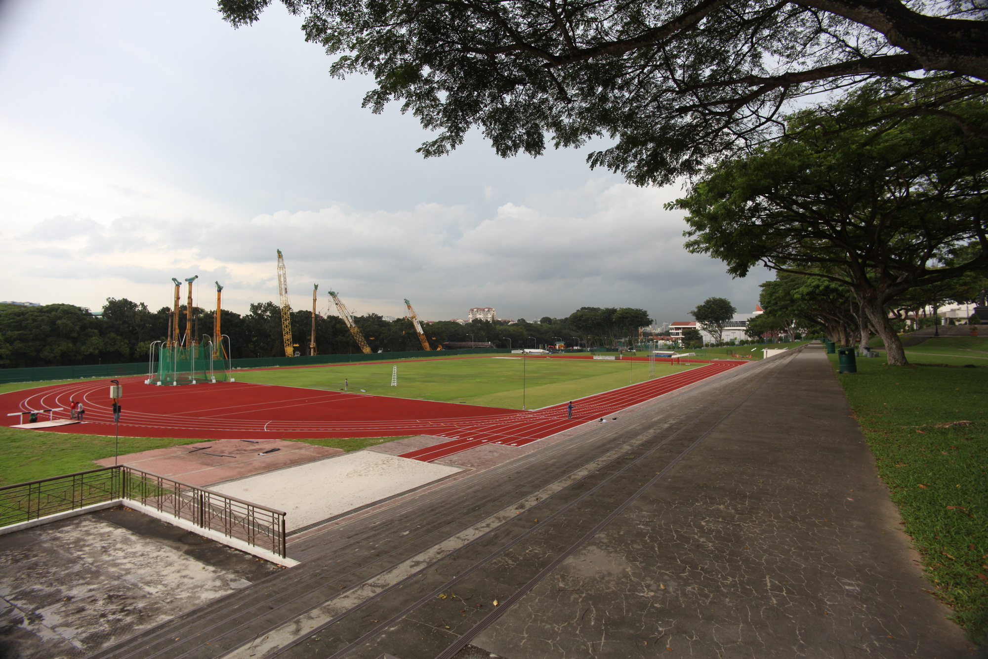 The sports complex of Hwa Chong Institution, Singapore.